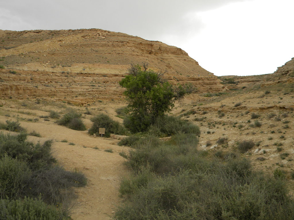 Pistacia atlantica tree at the area of Lotz Cisterns[1] (Lotz Pits; Hebrew: בורות לוץ, Borot Lotz) archaeological site in Negev Mountains, Israel. Pistacia trees in the area are remnants of an ancient forest that existed there.